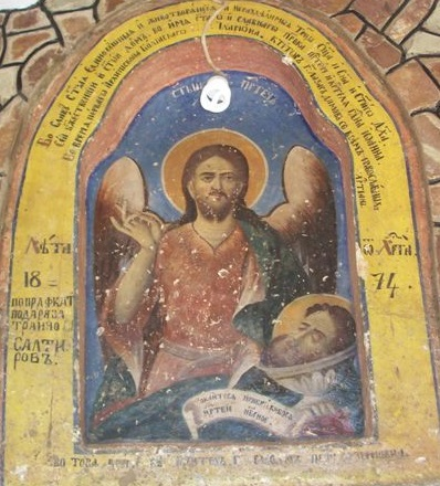 Saint John the Baptist Church in Leski Entrance Fresco